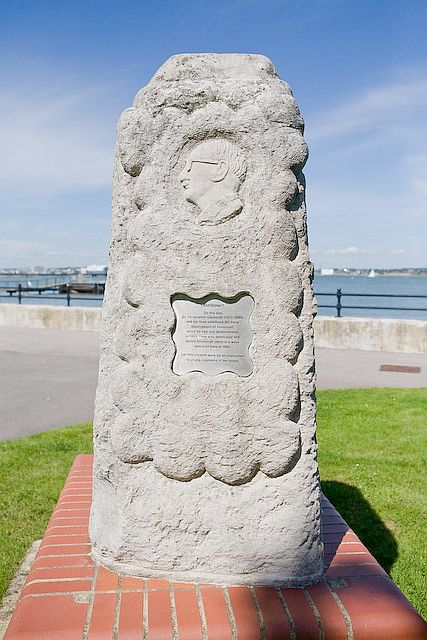 Memorial to Sir Christopher Cockerell at Hythe The inscription reads "HOVERCRAFT On this site Sir Christopher Cockerell (1910-1999) and his team continued the early development of hovercraft which he had first demonstrated in 1955. They also developed and tested hovercraft skirts in a wave tank built here in 1965. Let this creative work be an inspiration to young engineers of the future"